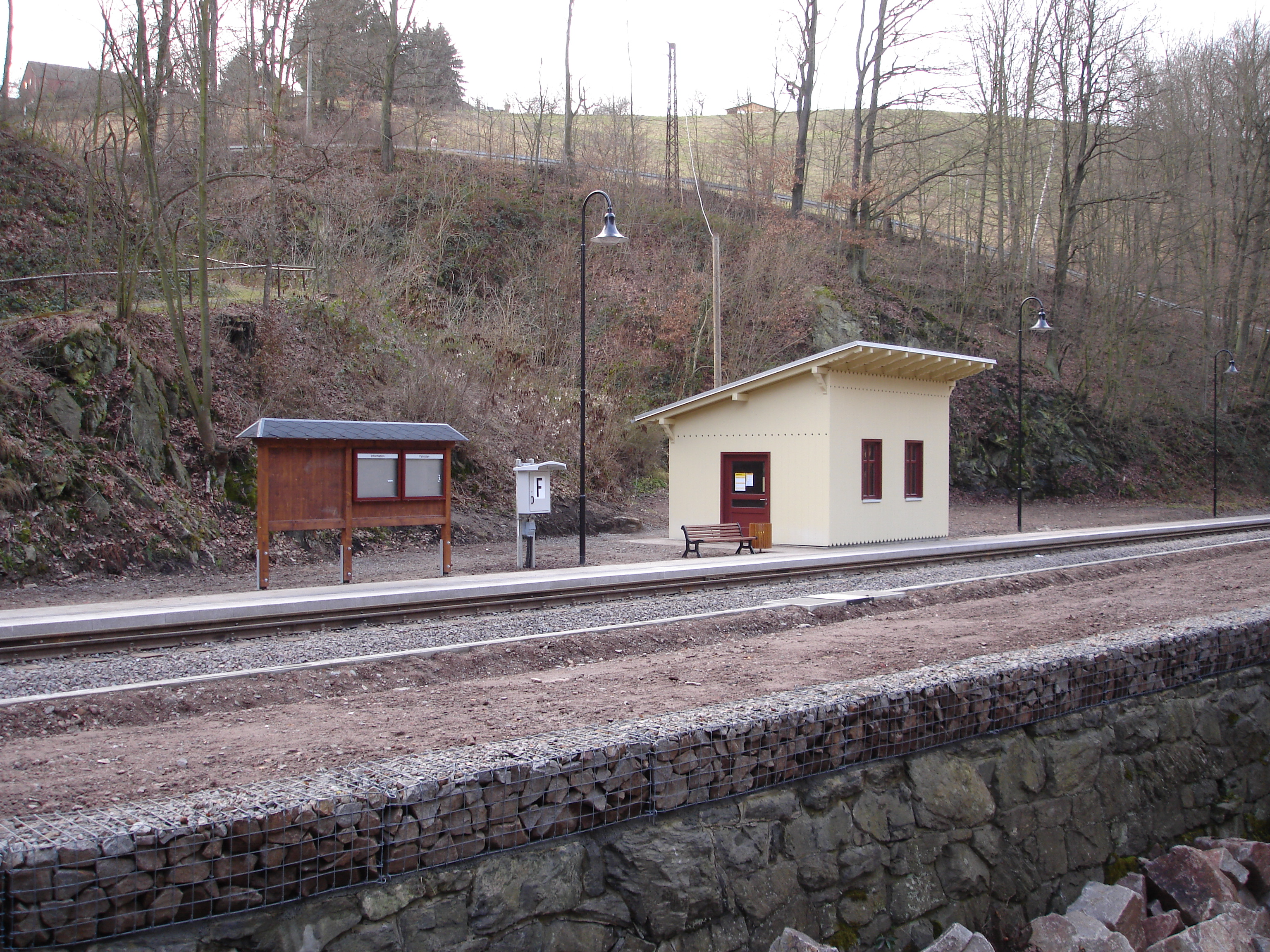 station Spechtritz, Weißeritztalbahn, Saxony, Germany